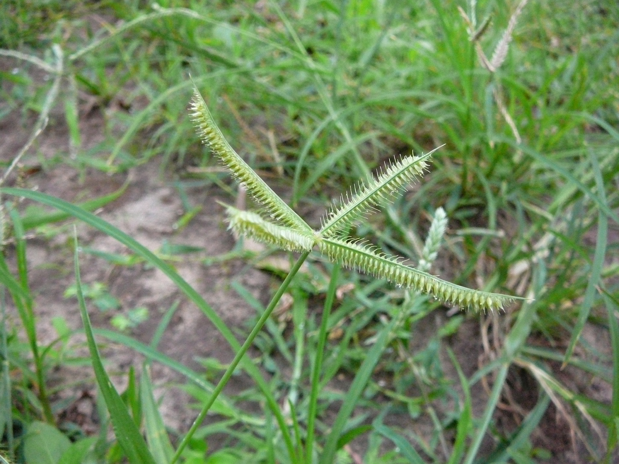 Egyptian grass, Crow’s foot grass